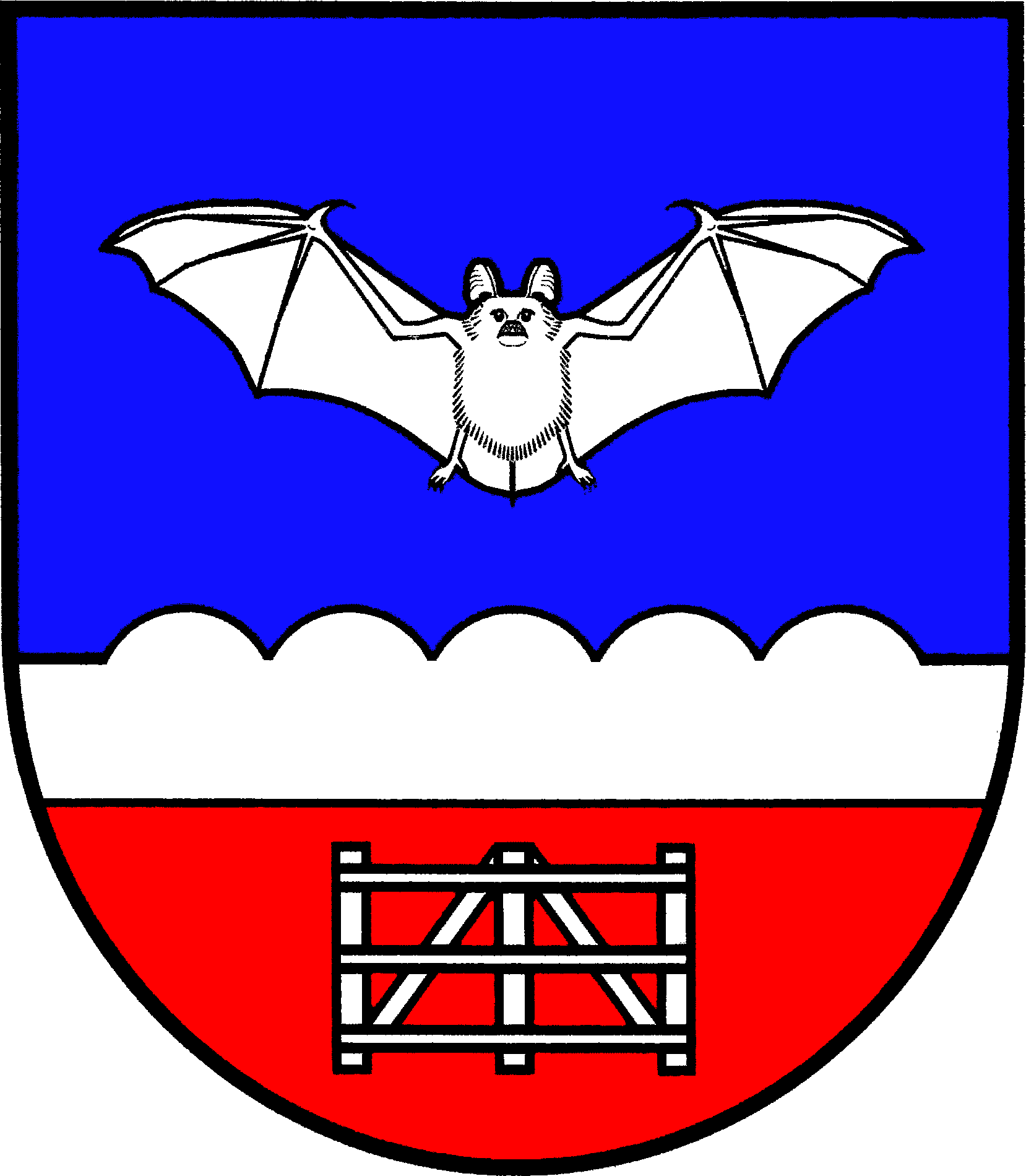 Coat of arms of the municipality Fiefbergen in Schleswig-Holstein, Germany.